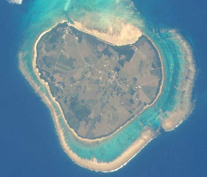 Kuroshima, Taketomi, Okinawa prefecture, Japan.